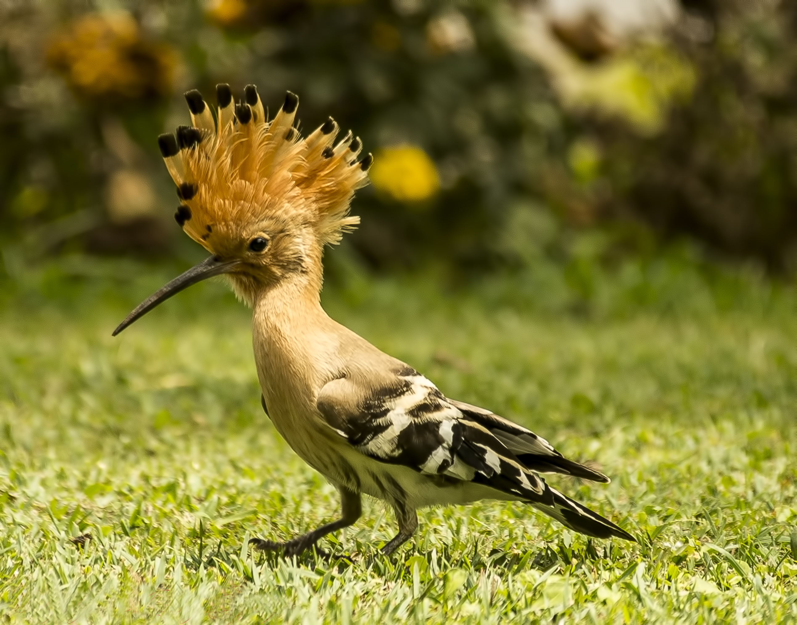 A Eurasian Hoopoe in Coonoor, Tamil Nadu, India.